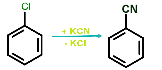 Benzonitrile synthesis from chlorobenzene